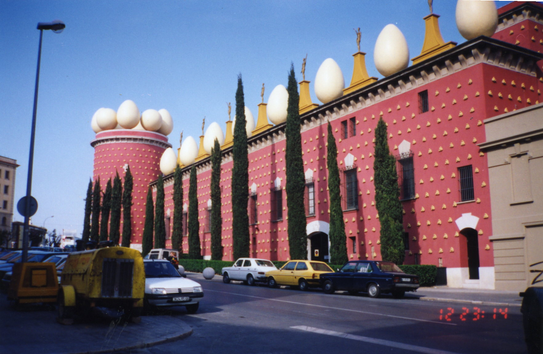 Teater Museu Gala Salvador Dali, the museum building from outside, picture taken by User:Andris in 1995, scanned by Iveta Sala